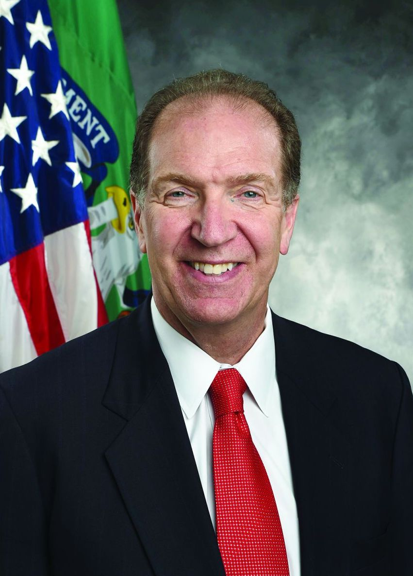 official portrait of david malpass